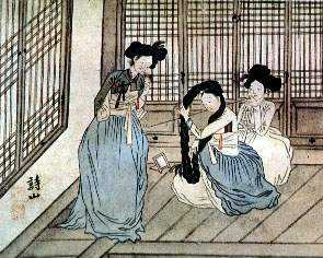 The painting Ginyeo (기녀, 妓女) by Joseon Dynasty painter Yu Un-hong, 1797-1859. Retrieved from [1]